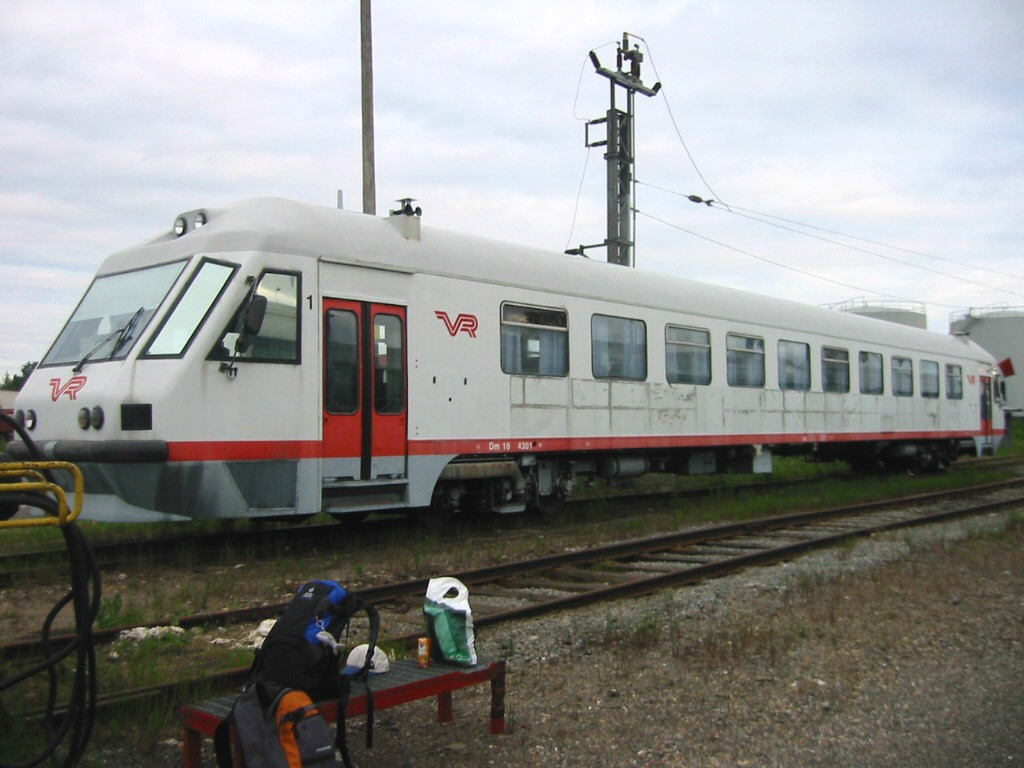 VR Class Dm10 diesel motor coach 4301. 4301 was the only unit of Dm10 class and was scrapped at Joensuu, Finland starting 26 May 2006.